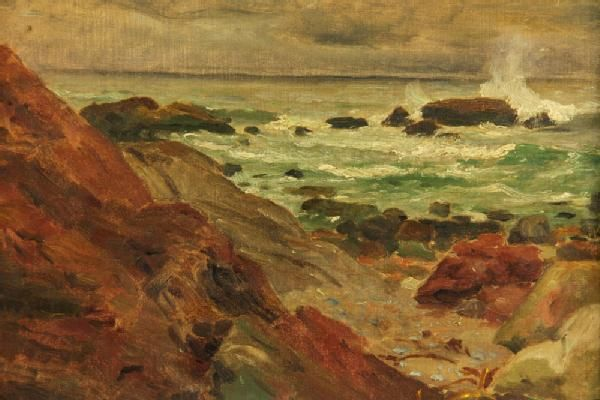 Seascape